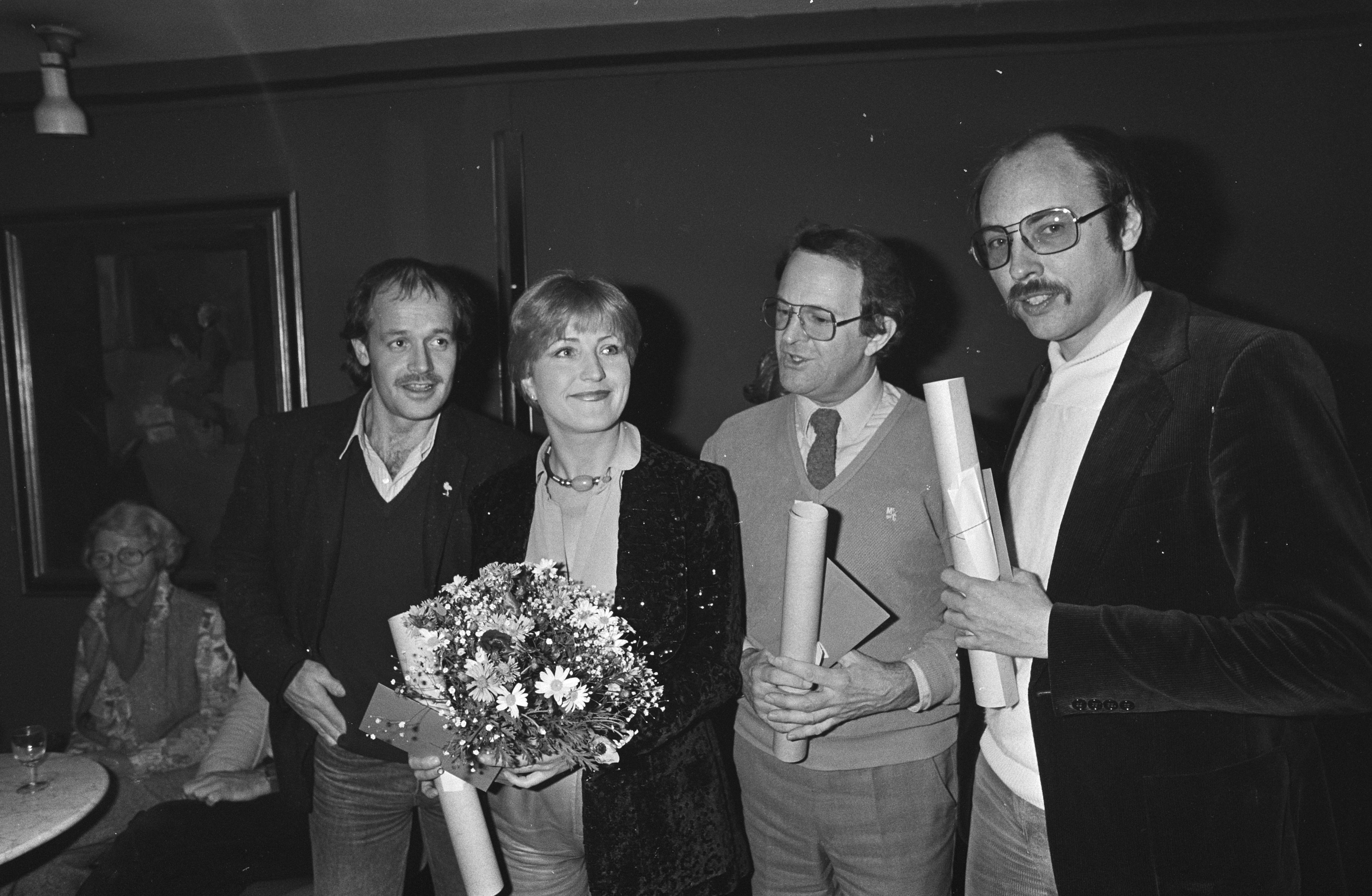 Louis Davids Prize 1980, Nieuwe de la Mar Theater, Amsterdam, The Netherlands. From left to right: Gerard Stellaard, Jasperina de Jong, Harry Bannink & Jan Boerstoel